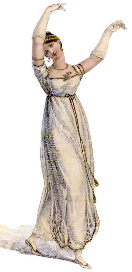 High-waisted dancing dress from 1809, with a slit overskirt -- rather modern-looking in some respects (in a way that most Victorian or eighteenth-century fashions could never be). The woman seems to be wearing hoop earrings which were relatively large by the standards of the time.